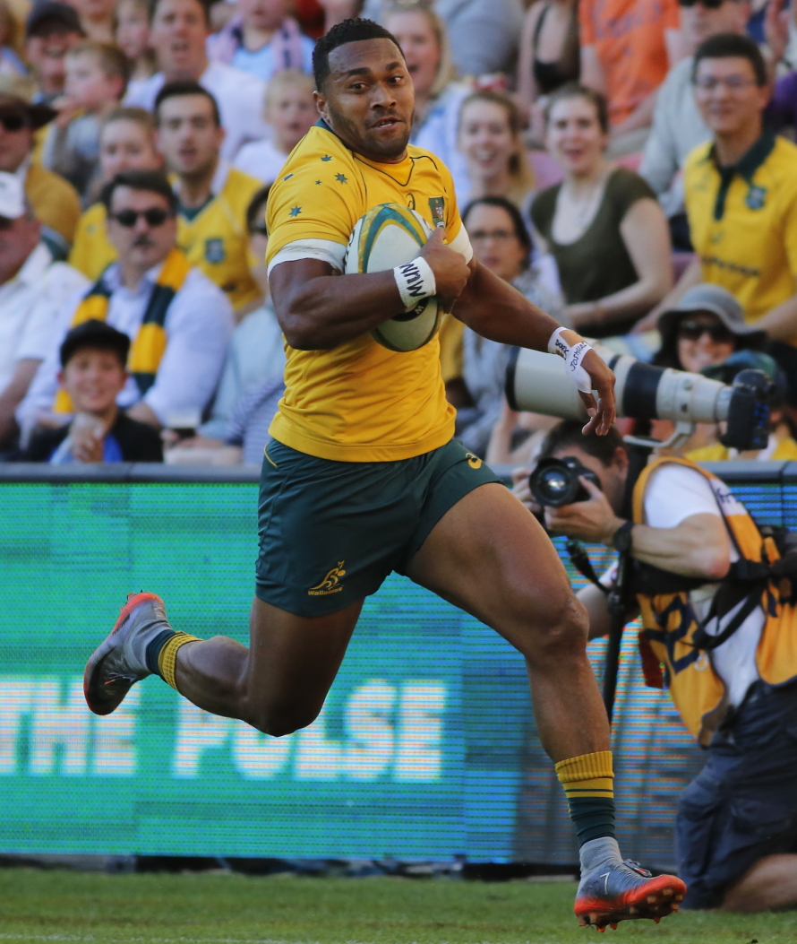 2017.06.24.15.22.23-Sefa Naivalu try The 2017 mid-year rugby union internationals, 24 June 2017, Australia vs Italy at Suncorp Stadium, Brisbane